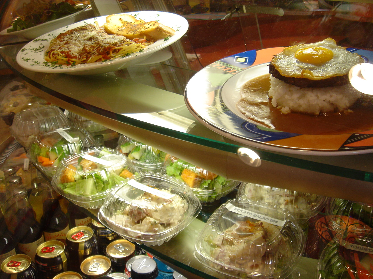 Hamburger locomoco (top right-hand corner plate) at Aqua Cafe, Honolulu, Hawaii